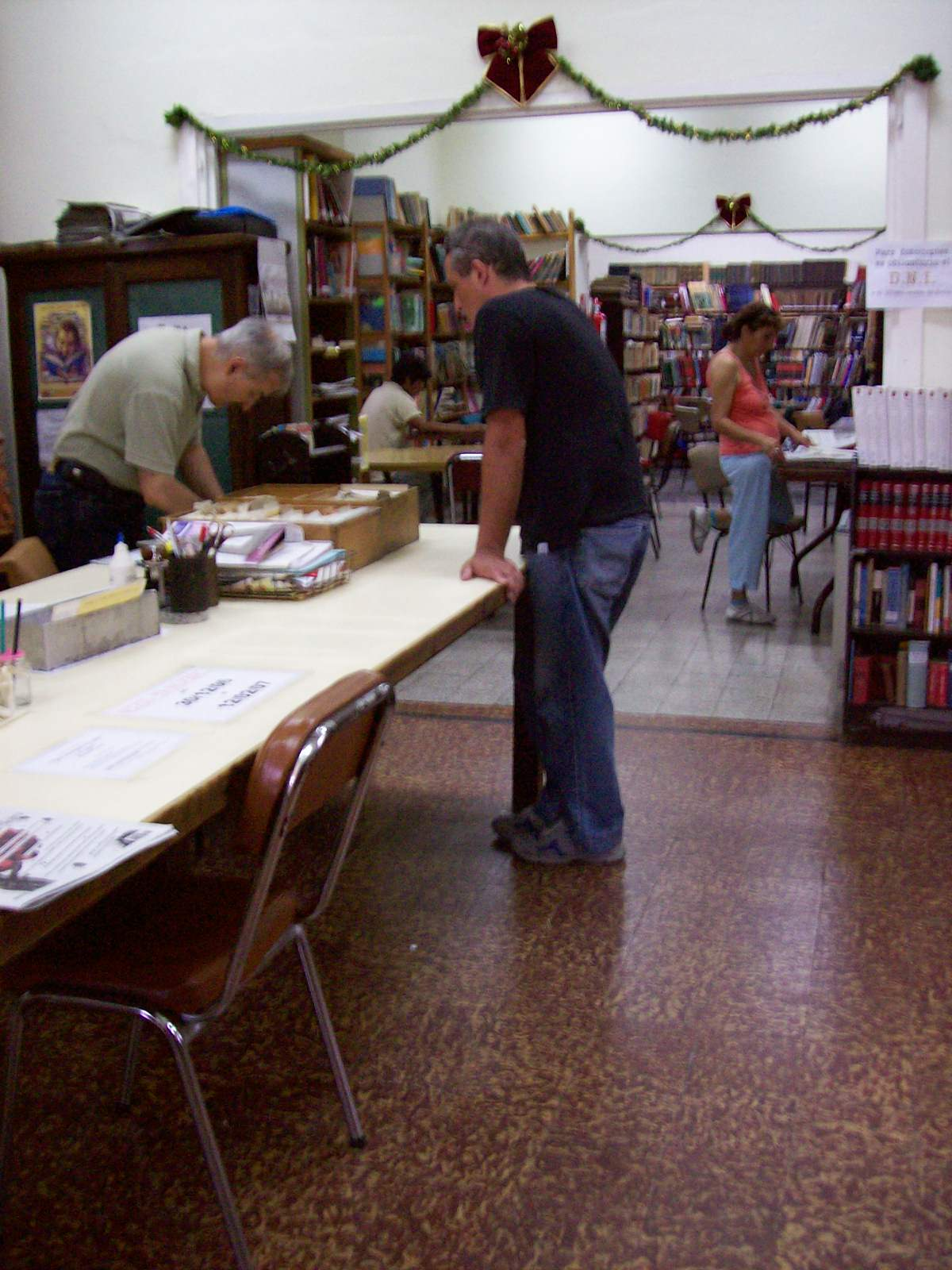 Inside the Library "Rafael de Aguiar" with Christmas decorations. San Nicolás de los Arroyos, Buenos Aires, Argentina.